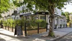 Lion & Unicorn Theatre